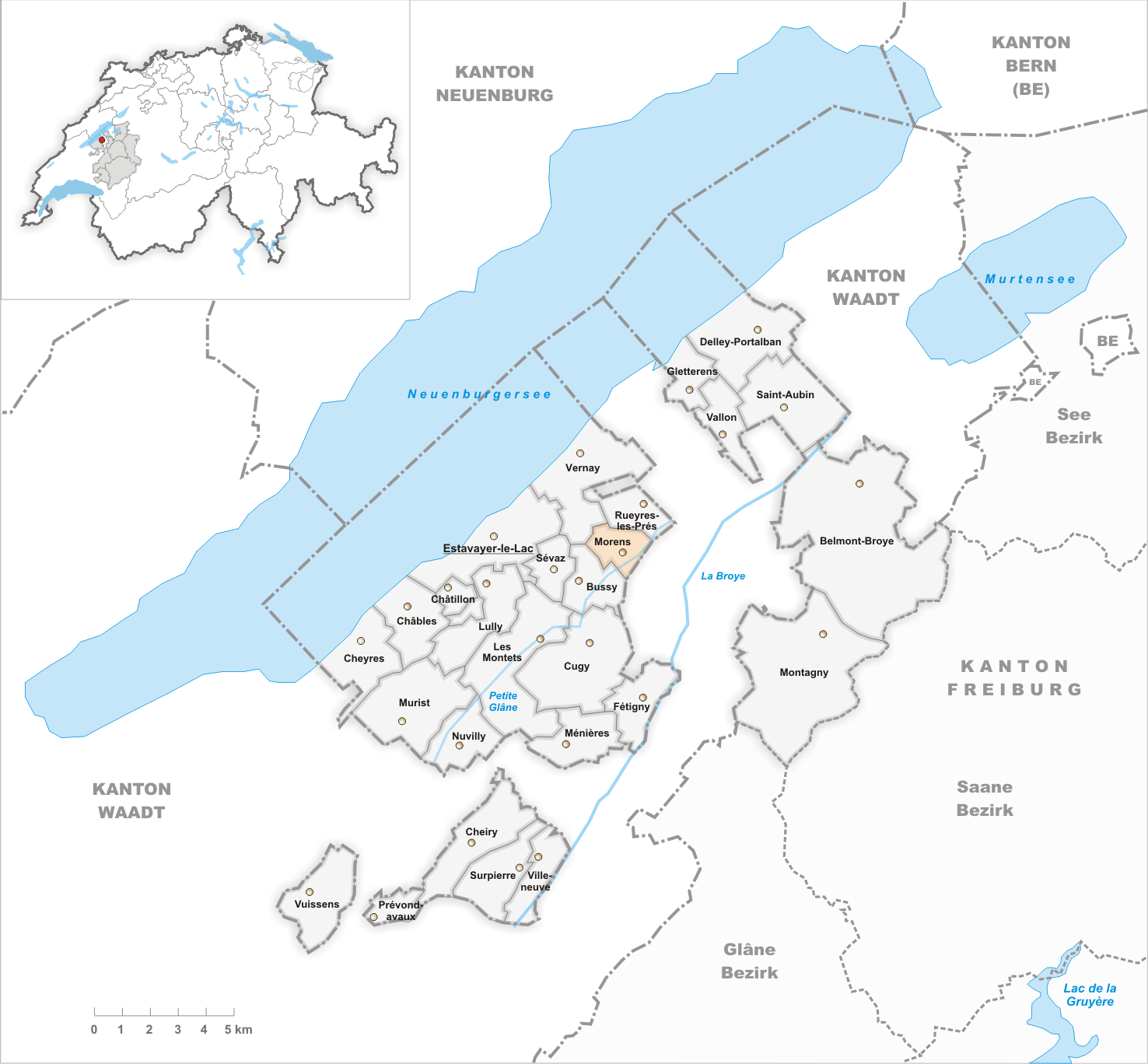 Municipality Morens